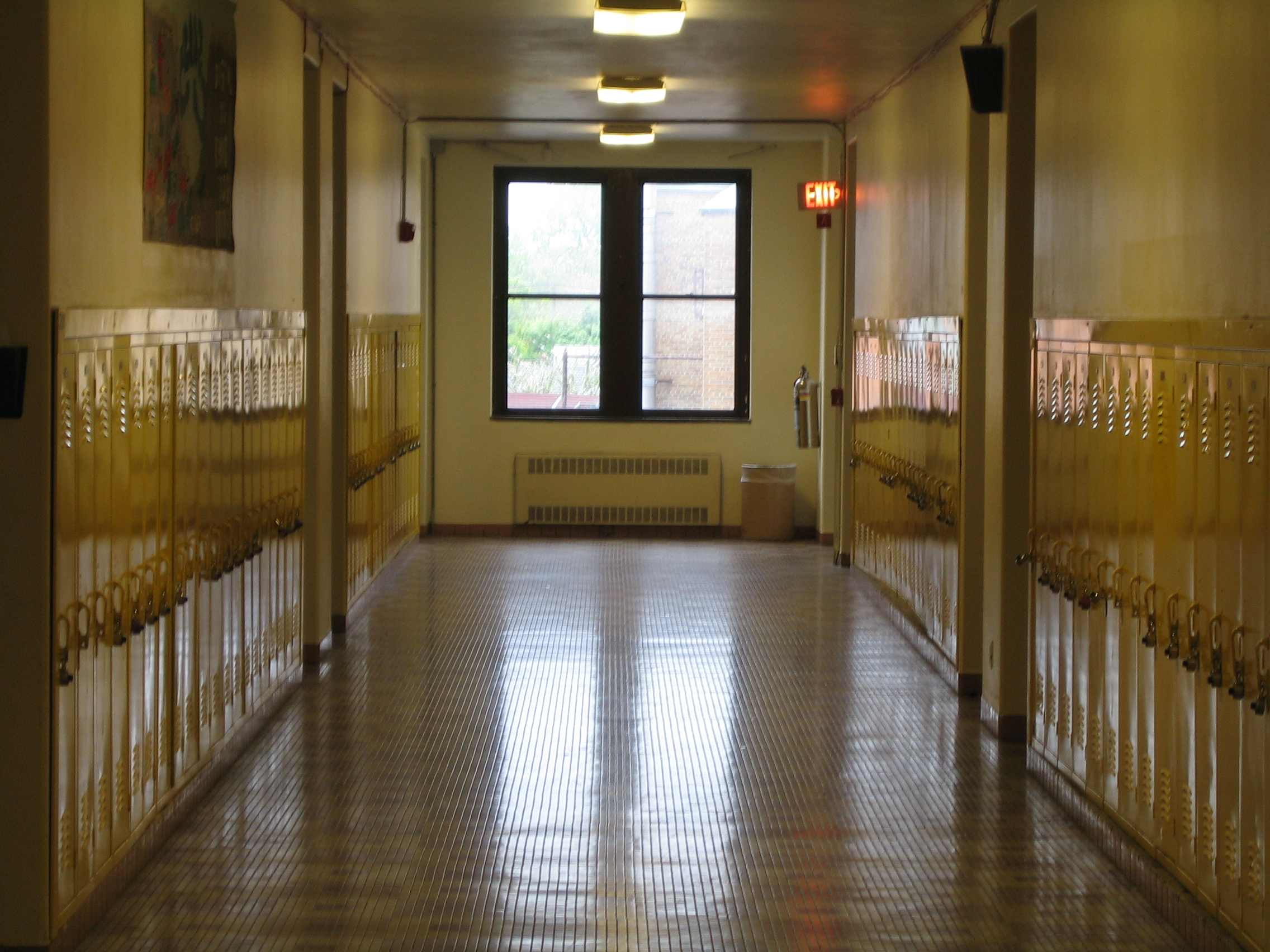 2nd floor hallway, old Detroit Redeemer High School